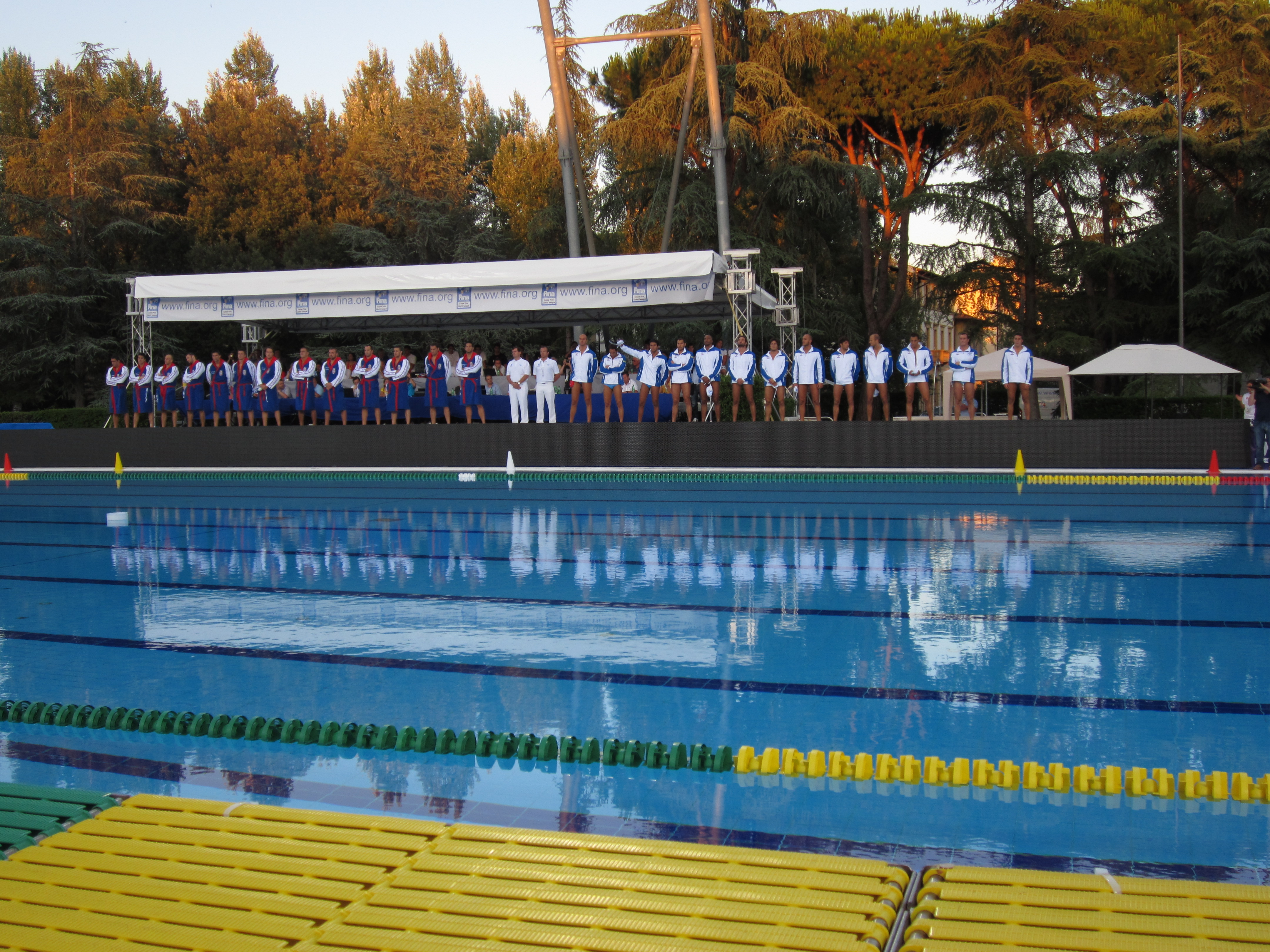 Fina Men's Water Polo World League Super Final 21 - 26 June 2011 Croazia-Italia